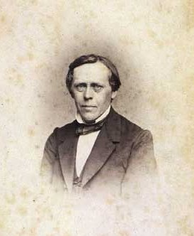 Peter Petersen Freuchen (1827-1894), Danish surveyor and professor